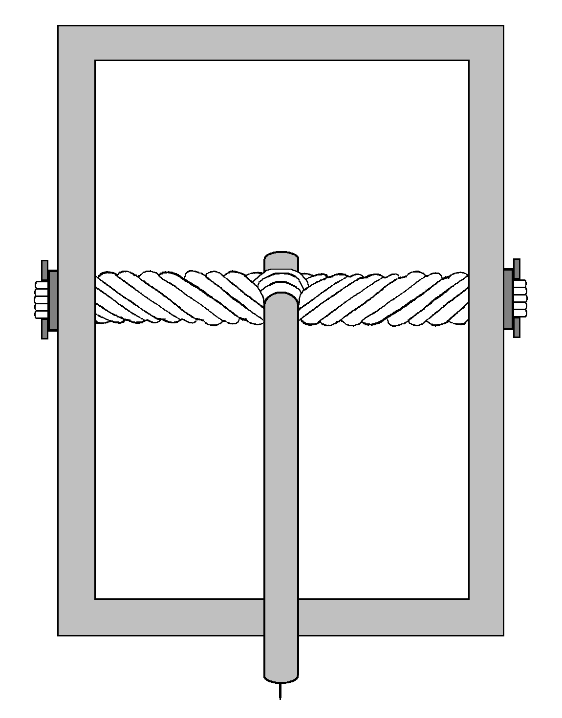 Simple drawing of a Greek "Monankon" Catapult.